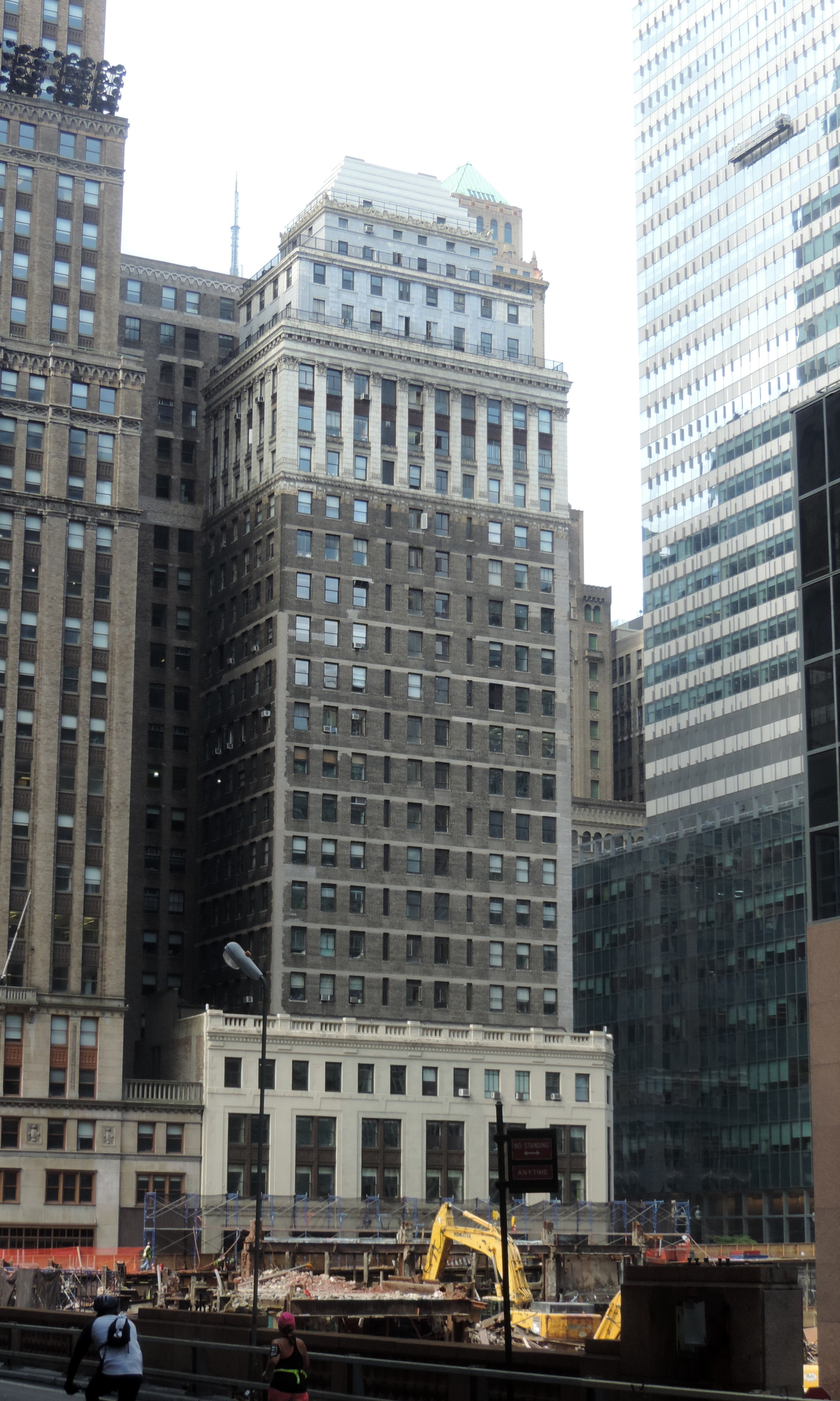 Looking southwest from viaduct at 315 Madison Avenue on a partly cloudy day during demolition